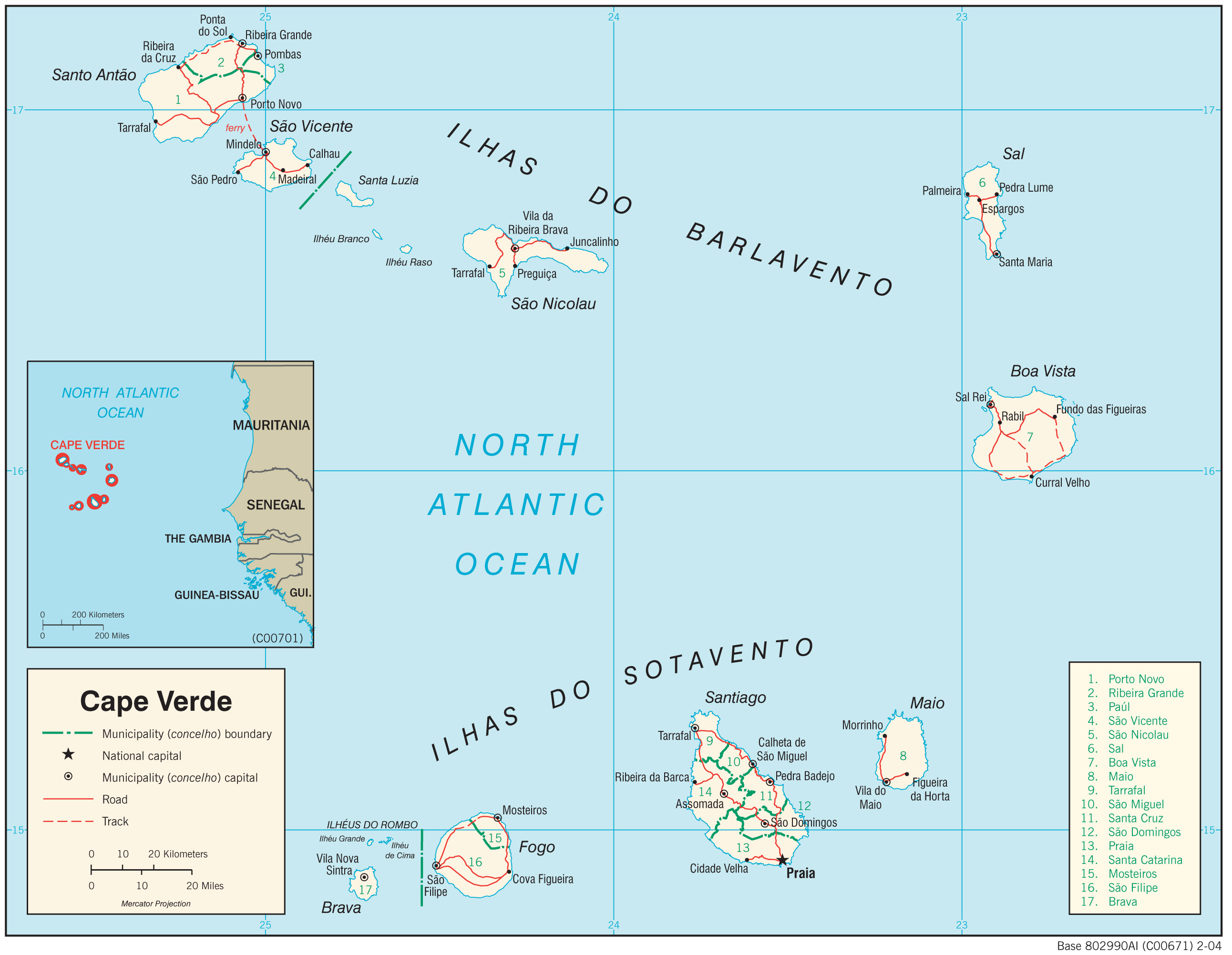 Transport system in Cape Verde, 2004.